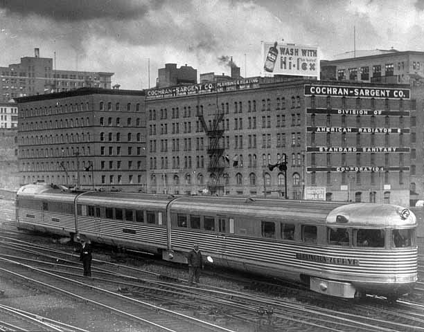 Union Depot historic photos and renovation project renderings Photo of one of the original trainsets of the Twin Cities Zephyr at Saint Paul, Minnesota in 1935.